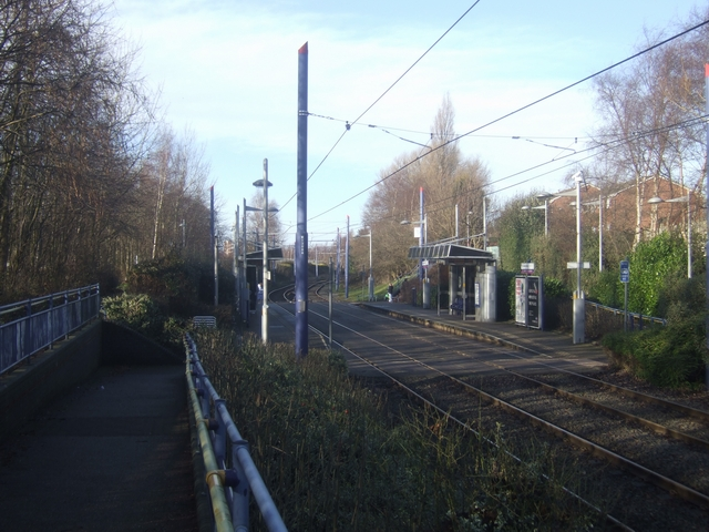 Kenrick Park - Metro Stop The Metro uses the former trackbed of the GWR Wolverhampton Low Level to Birmingham Snow Hill line. There are a number of these isolated stops in cuttings. Vandalisation of ticket machines led to the fairly rapid introduction of fare collectors on the service.